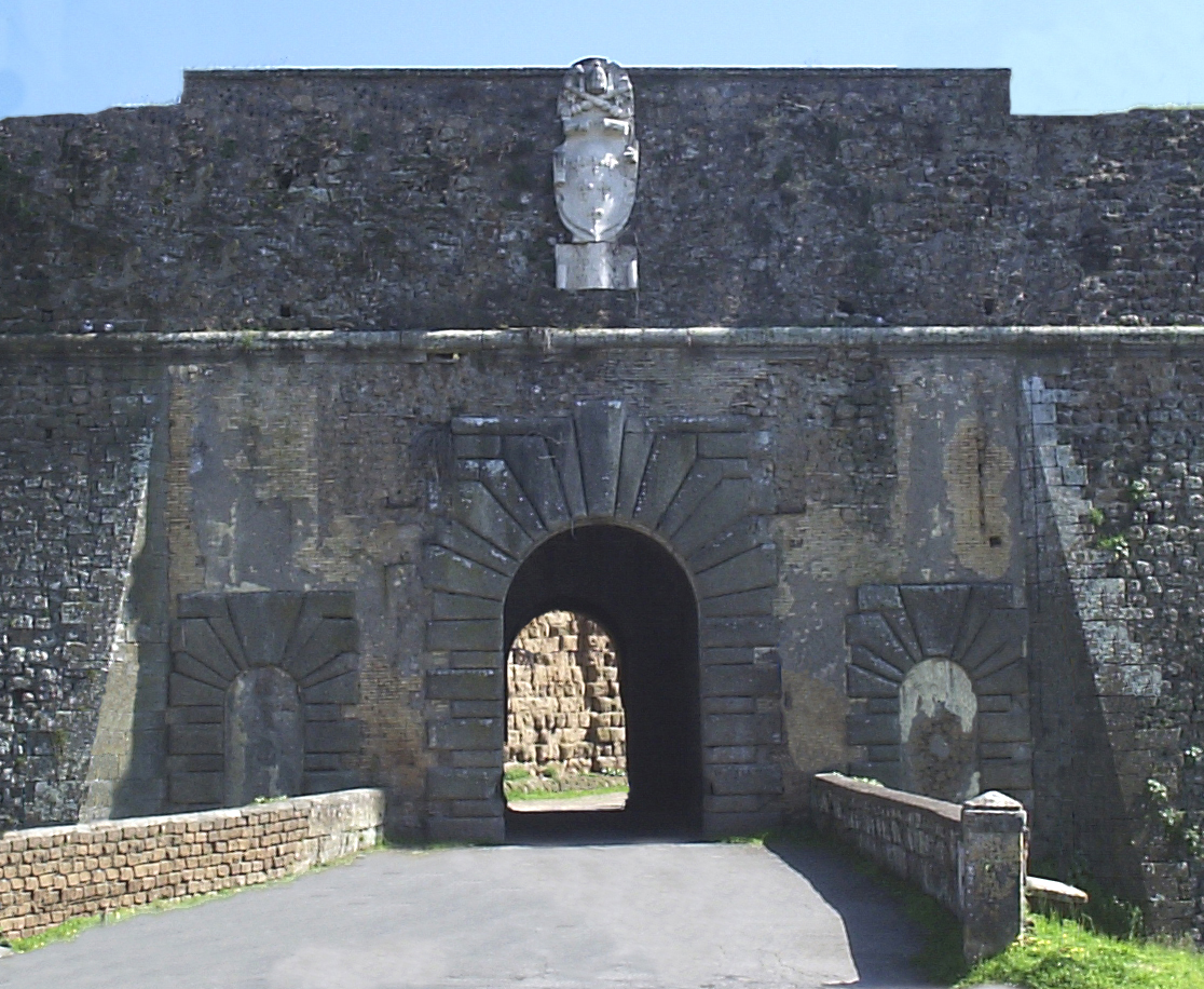 The principal gate of the city